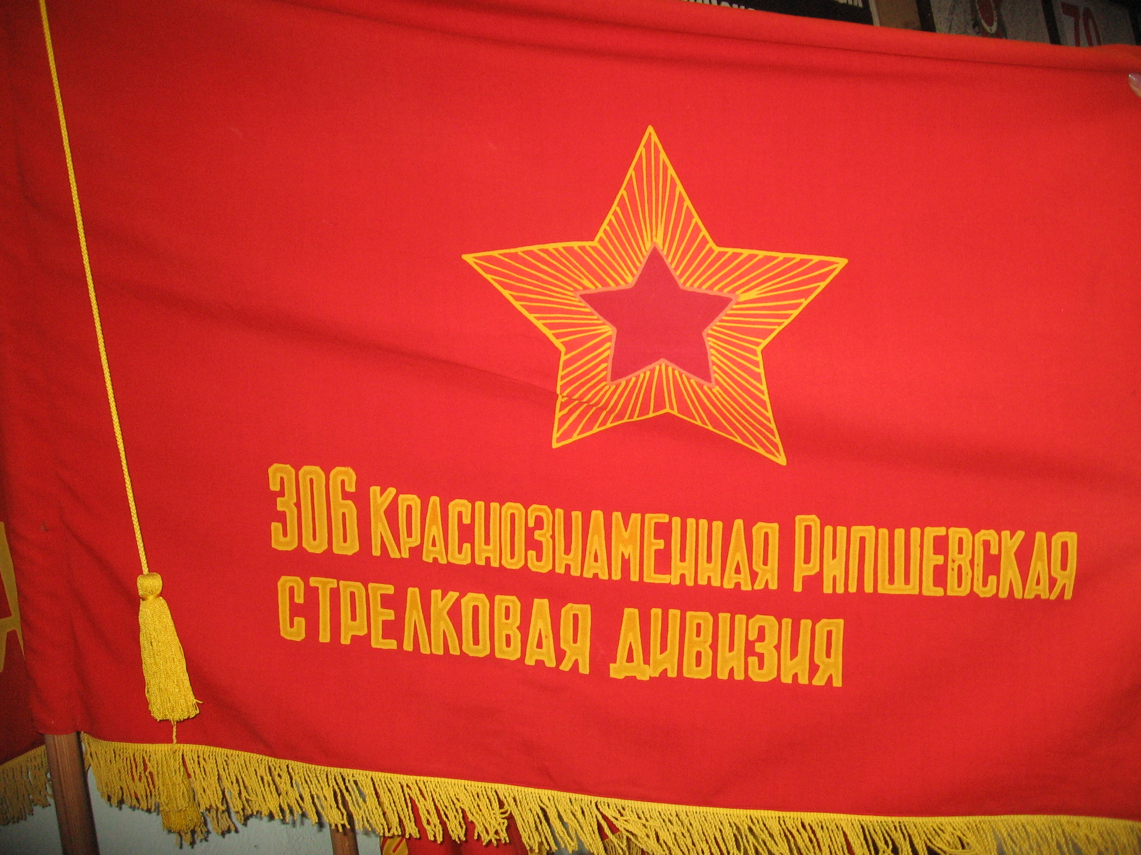 Знамя